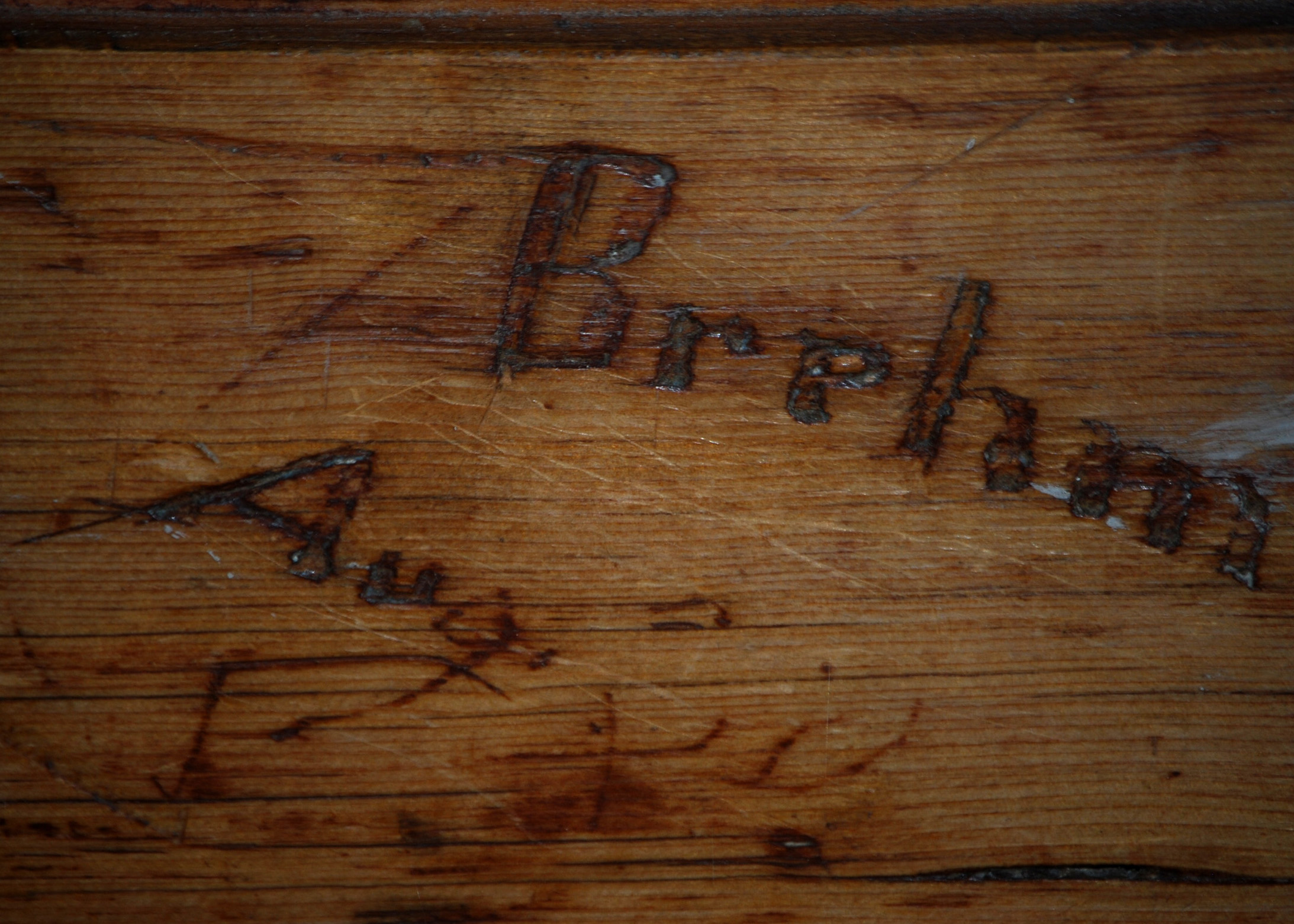 Inscription of Private Charles E Brehm at the Stone House, Manassas National Battlefield Park.